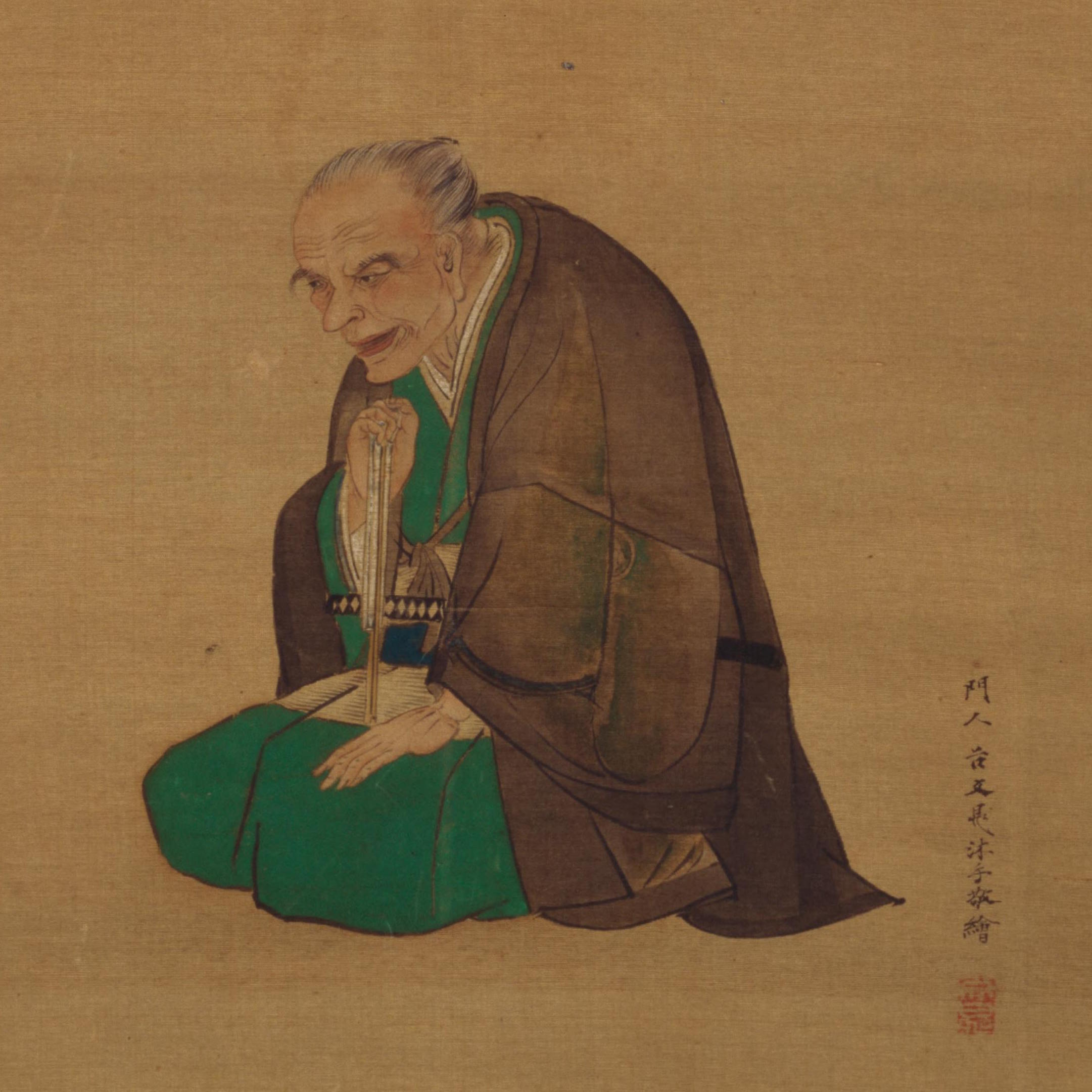 A portrait of Ono Ranzan by Tani Buncho 小野蘭山像 谷文晁筆